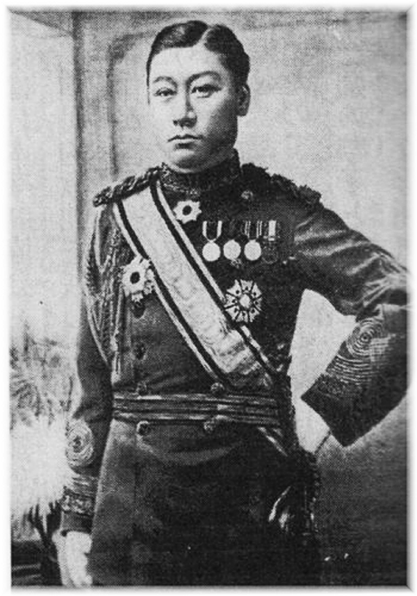 Kiyohiko Shigeno (1846-1896) Hiroka 03-Meiji 29 50-year-old died. Lieutenant General of the Army, first rank Baron of the Third Order. Background: The eldest son of the Choshu feudal lord Shinma Mayuda. Enlisted in an odd soldier, conquered Choshu and served in the Boshin War. After the Meiji Restoration, he served in the Army and participated in the Saga Rebellion as a Governor-General of the Governor of Saga. He served as chief of staff for the conquered governor in the Southwest War. After that, he served as a commander in charge of Nagoya Zindai, Commander of the 4th Infantry Brigade, Director of the Military Academy, and Officer of an Officer's School.